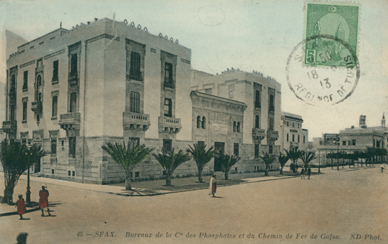 Bureau de la Cie de Phosphates et du Chemin de Fer de Gafsa